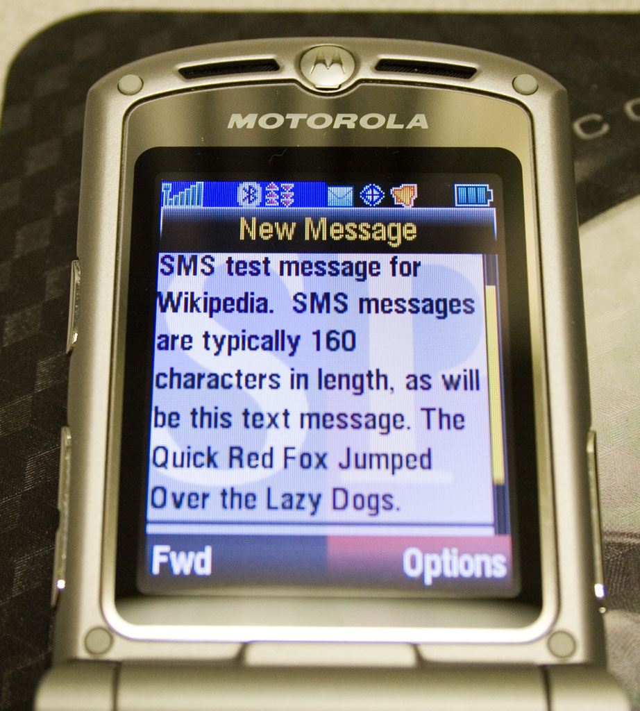 SMS message received on a Motorola RAZR wireless handset. Note the "New Message" dialogue at the top, telling the user that this New Message has just arrived, and the two soft menu buttons at the bottom corners suggesting actions to take. The text contains, among other, a variaton of the sample "The quick brown fox jumps over the lazy dog" reported as "The Quick Red Fox Jumped Over The Lazy Dogs"